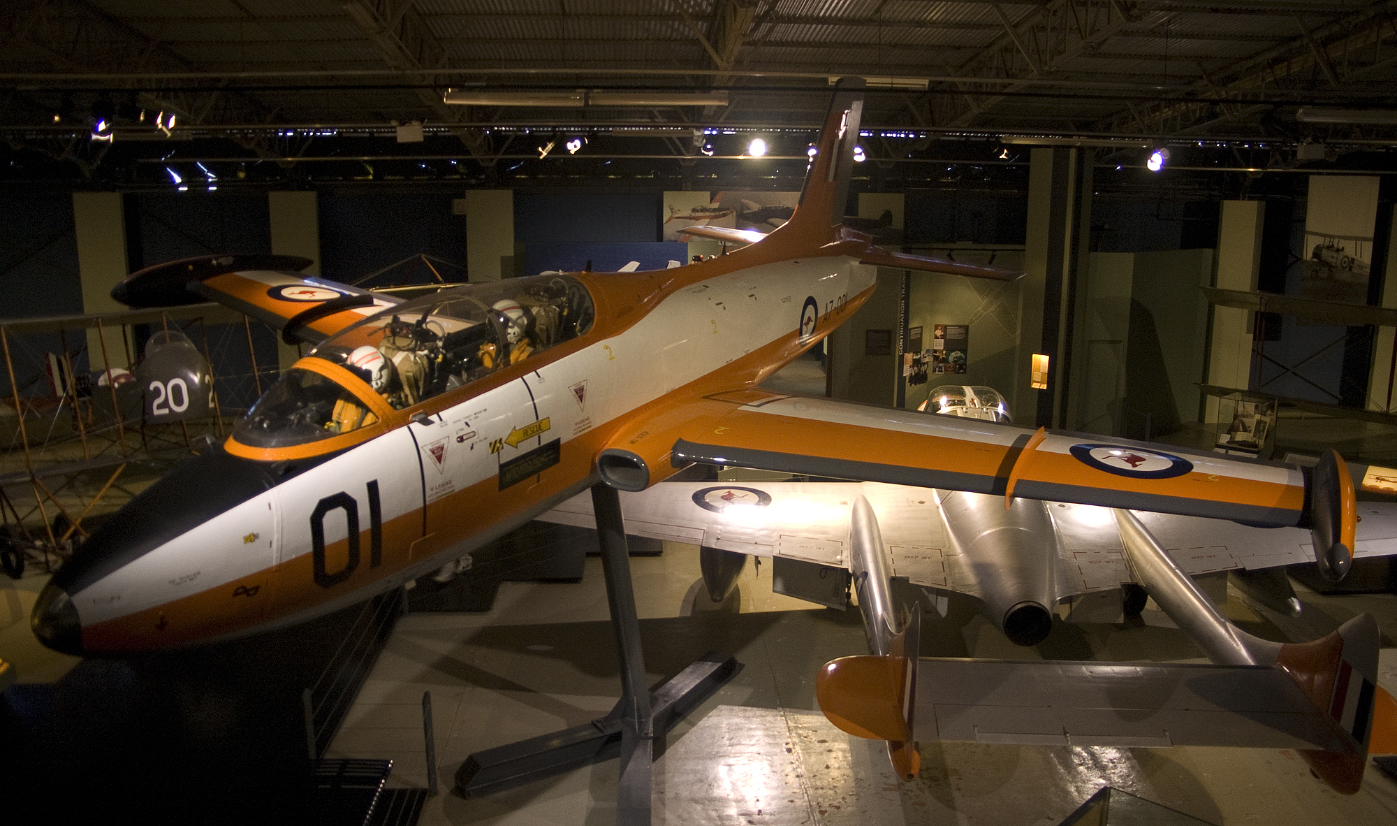 Aermacchi MB 326H A7-001 on display at the RAAF Museum.